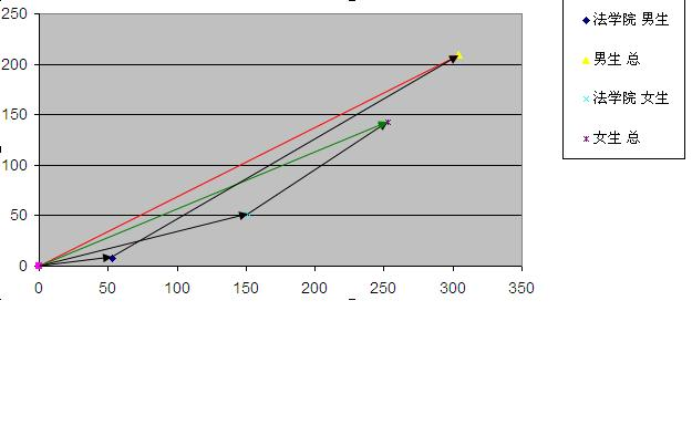 Simpson's paradox example in Simplfied Chinese